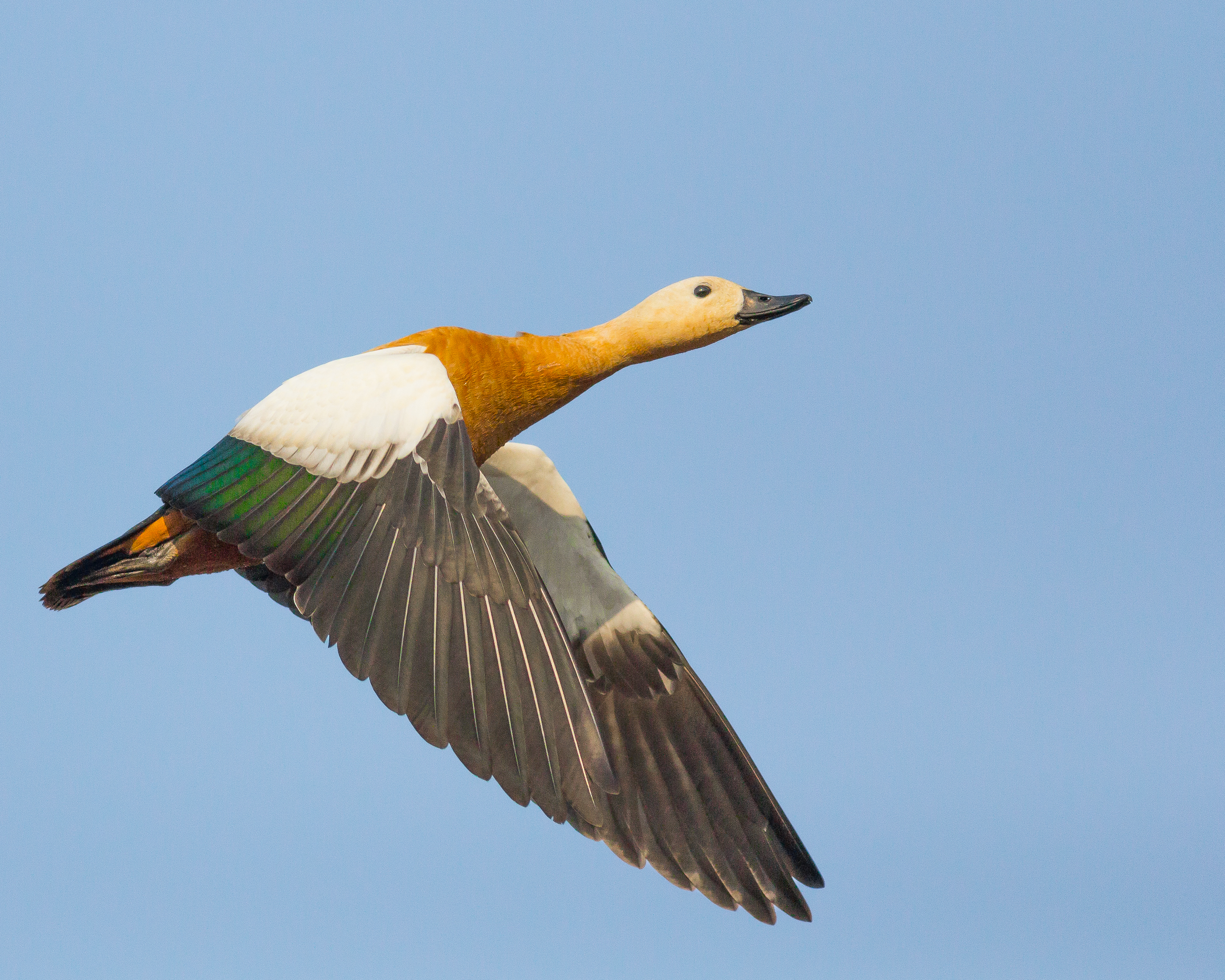 Clicked at Saswad, Maharashtra